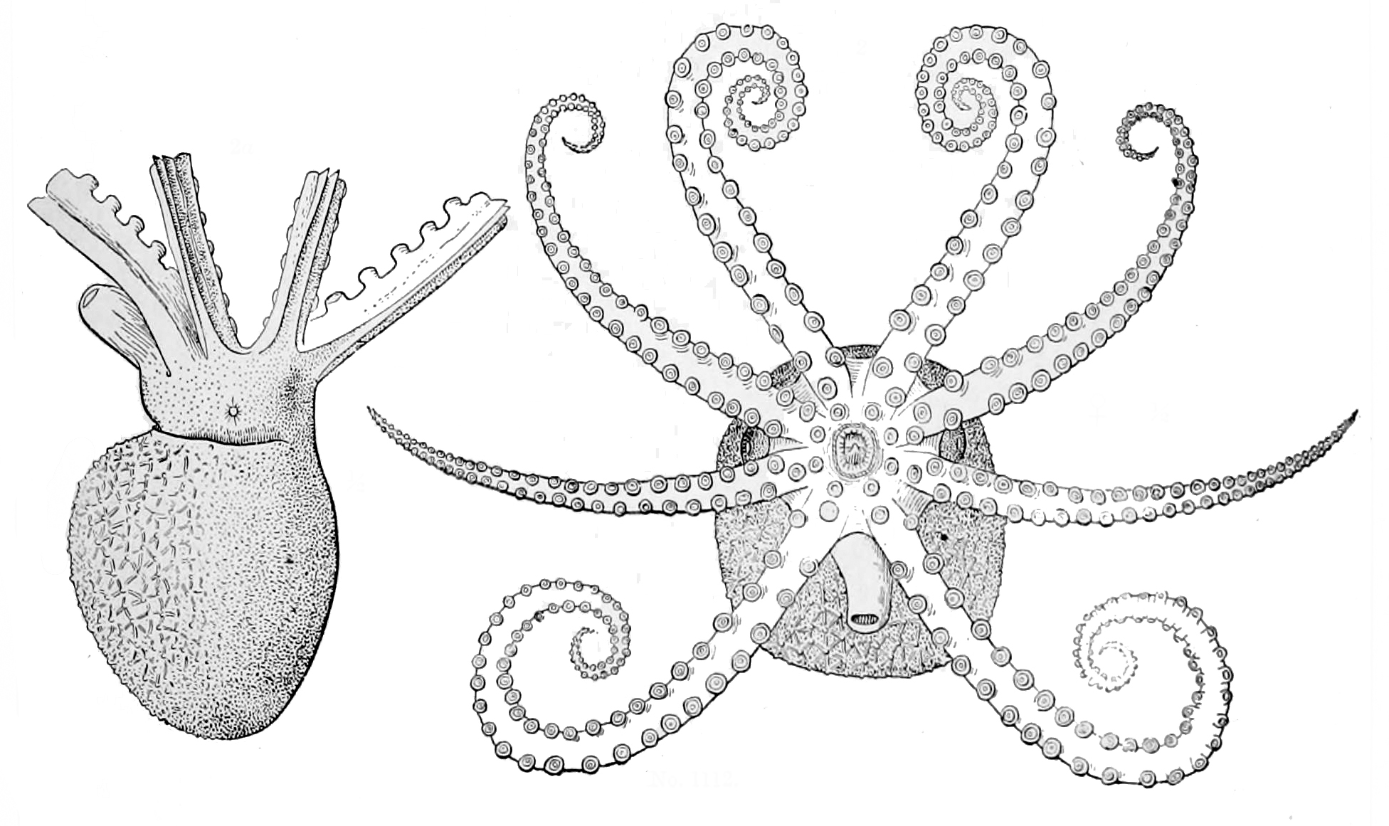 Ocythoe tuberculata